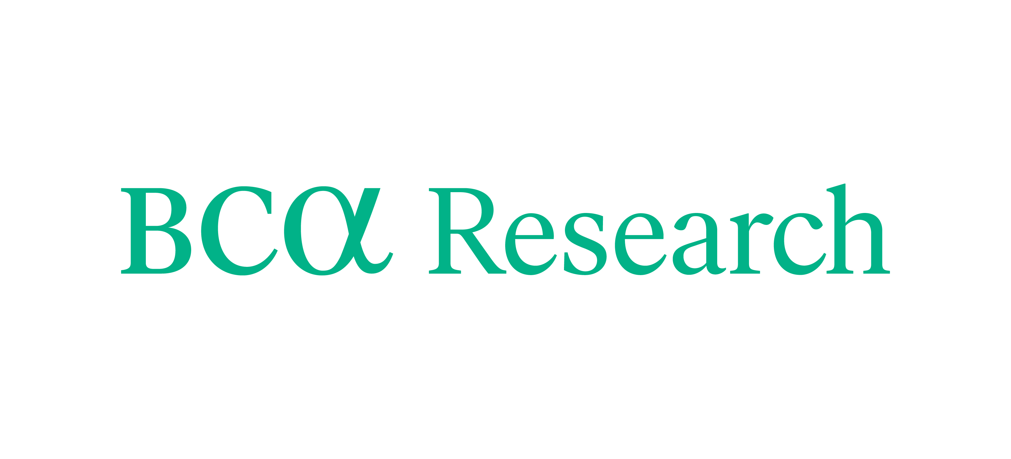 This is the current BCA Research Logo.